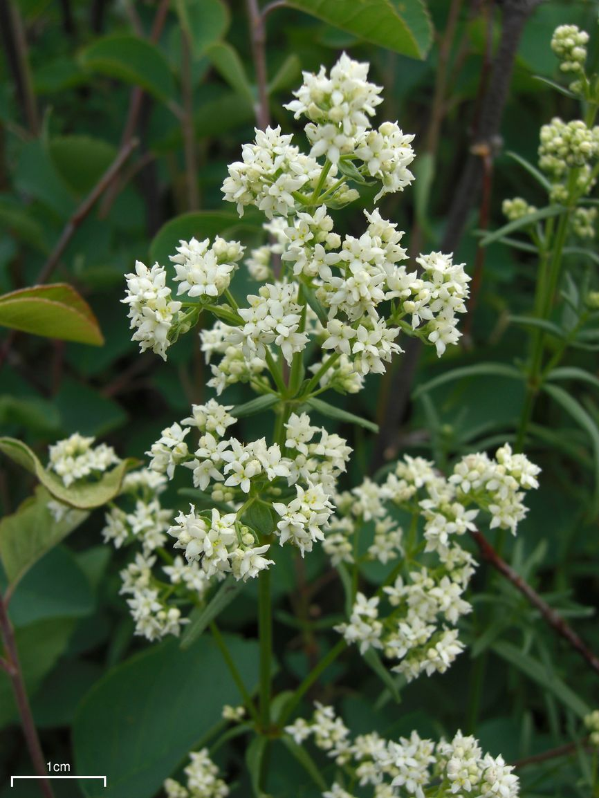 Galium boreale L. 20090620 (photo #14) Peace River, BC